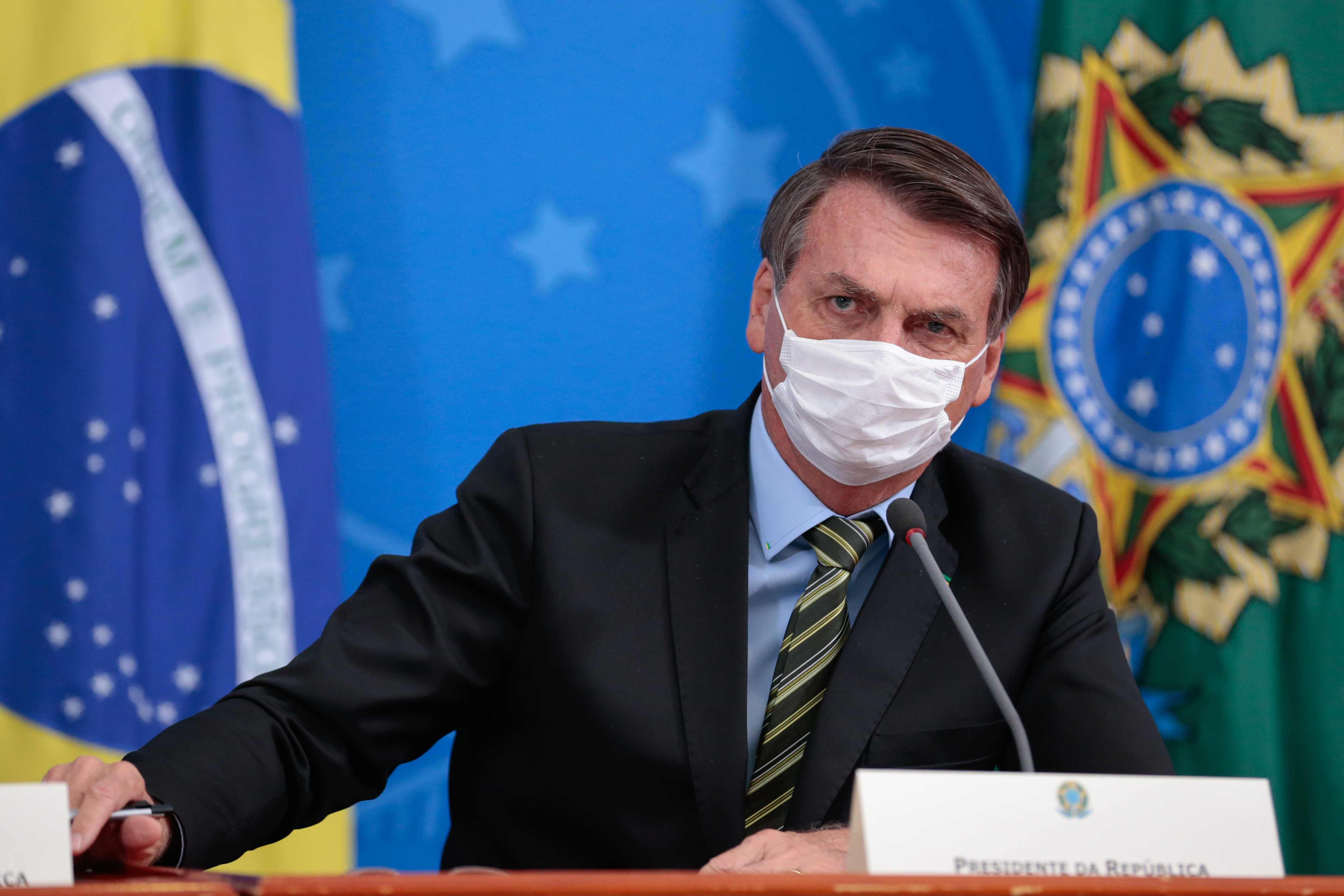 (Brasília - DF, 18/03/2020) Declaração à Imprensa. Foto: Carolina Antunes/PR